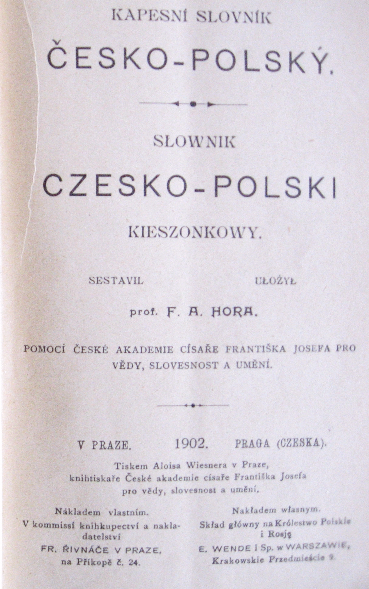 Title page of Czech-Polish dictionary from 1902 created by František Alois Hora.